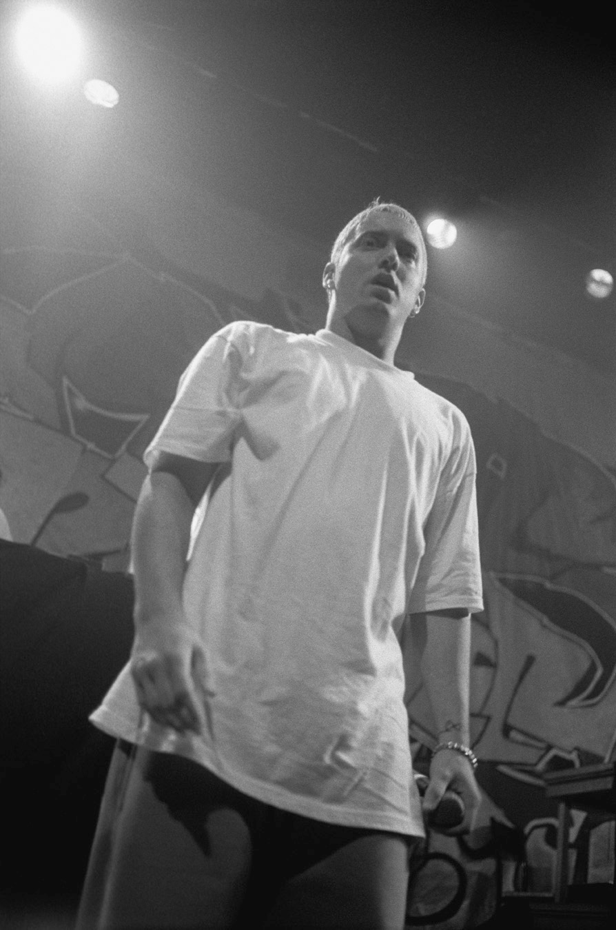 Munich/Germany 31.10.1999